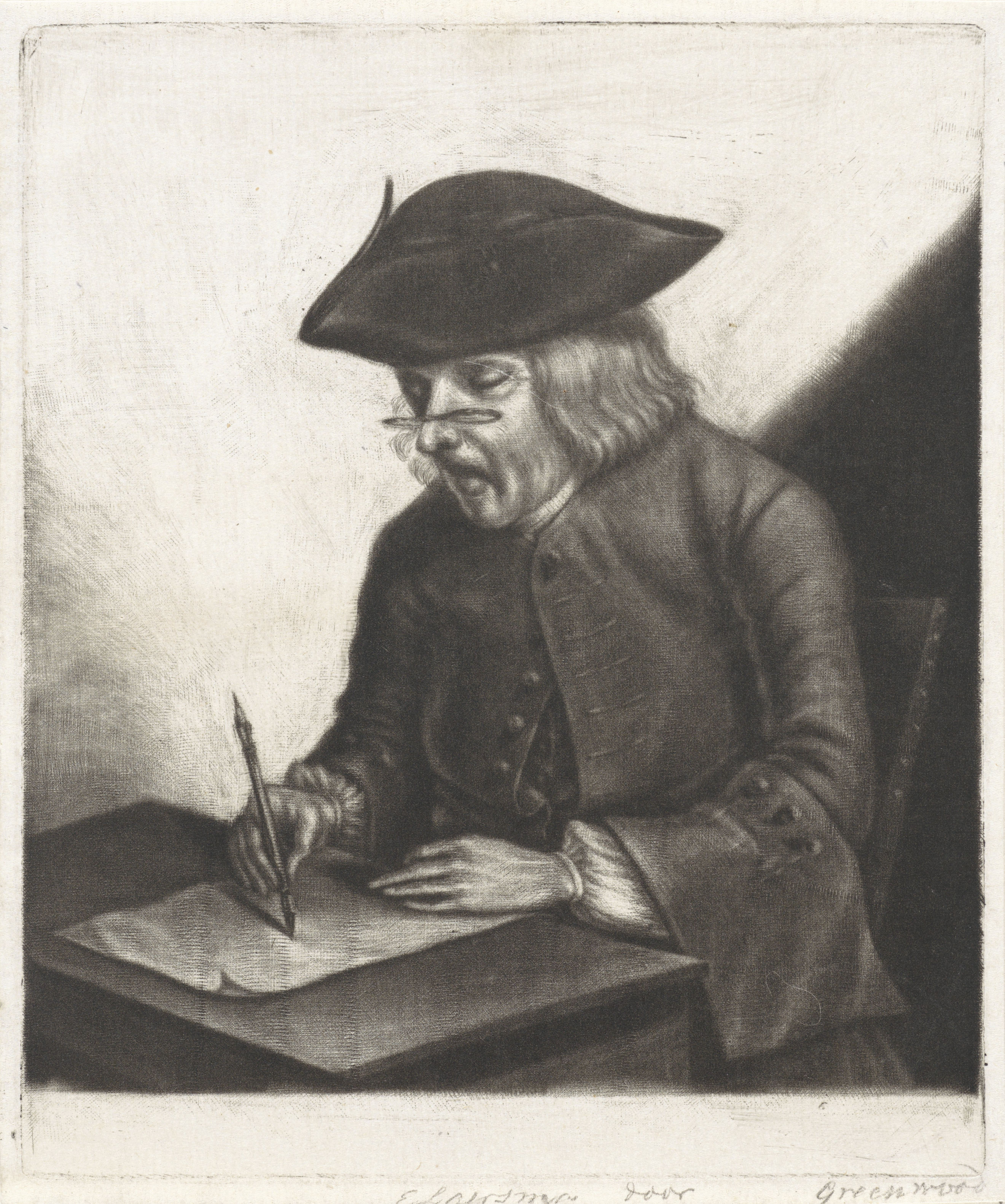 Portrait of the painter Tako Jajo Jelgersma